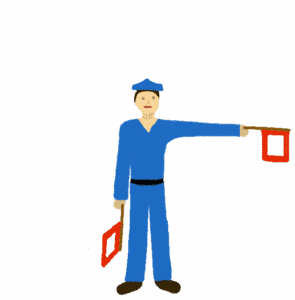 Letter F of the nautical semaphore flag signalling system Source: Martin Hawlisch (User:LosHawlos) My own drawing done in gimp First uploaded to de: in jun-2004